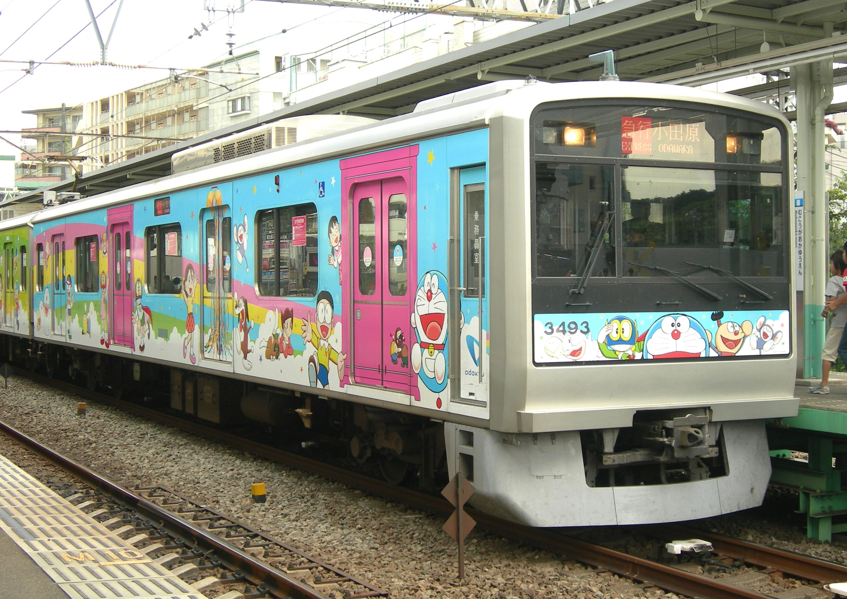 Mukōgaoka-Yūen Station